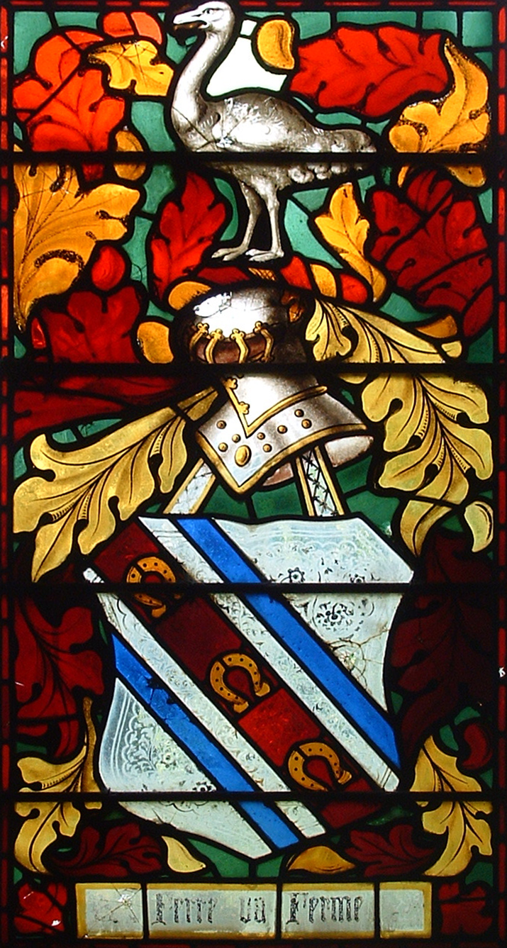 Detail of a stained-glass window in Little Gidding Church, showing the Arms of Nicholas Ferrar. Note that these are the arms of another Ferrar family; the colours of Nicholas Ferrar's Arms are different, and the crest should be an arm (in chain mail) holding a sword.